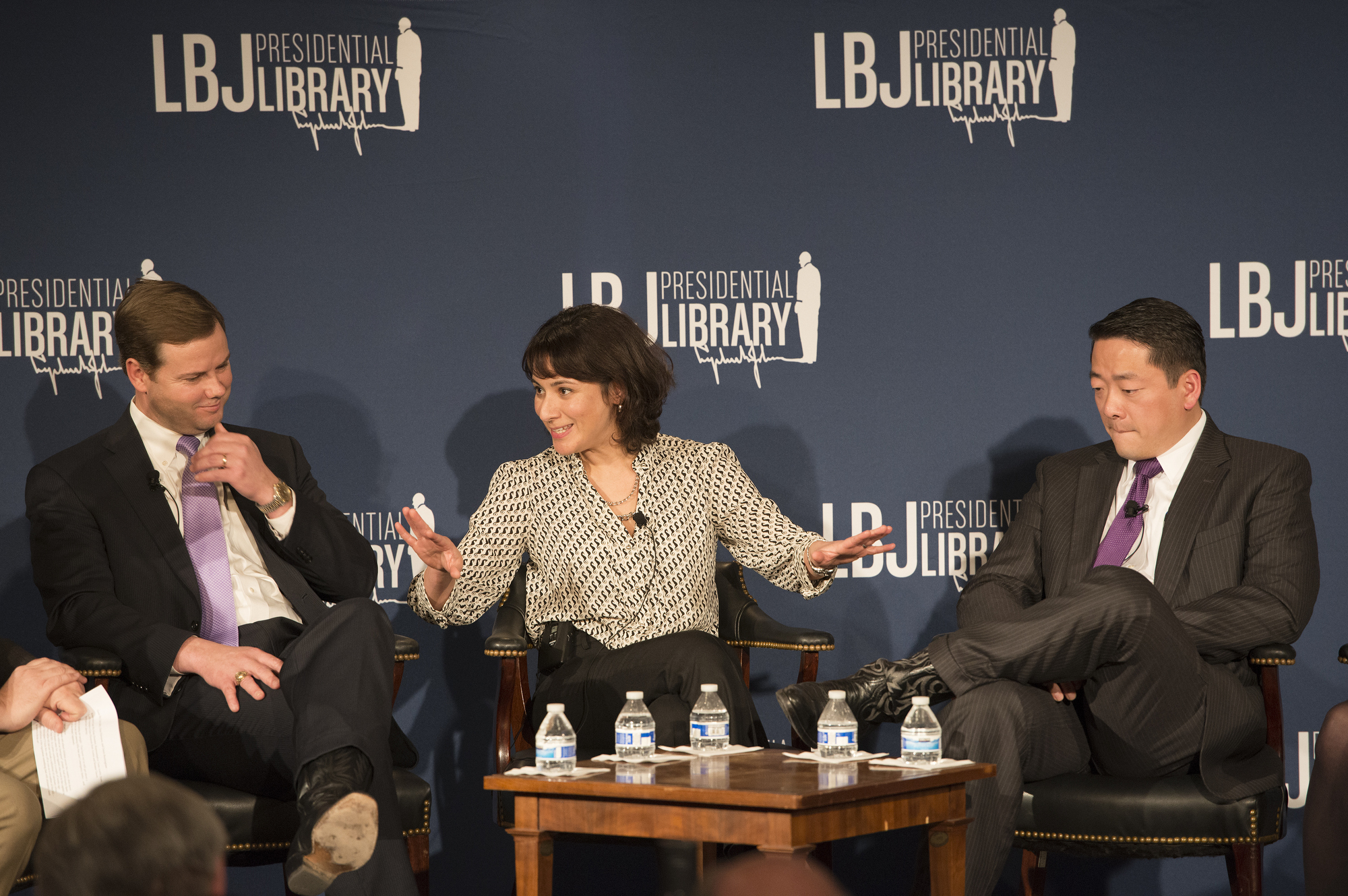 Rep. Trent Ashby, Rep. Gina Hinojosa and Rep. Gene Wu The LBJ Presidential Library’s Future Forum hosted its biennial Future of Texas discussion on Thursday, Feb. 16, 2017. Four state legislators reviewed the issues facing the Texas Legislature’s current 85th session: Rep. Trent Ashby, R-Lufkin, Sen. Dawn Buckingham, R-Lakeway, Rep. Gina Hinojosa, D-Austin, and Rep. Gene Wu, D-Houston. Moderating the discussion was Ben Philpott, senior editor at KUT, Austin’s National Public Radio station. LBJ Library photo by Jay Godwin 02/16/2017